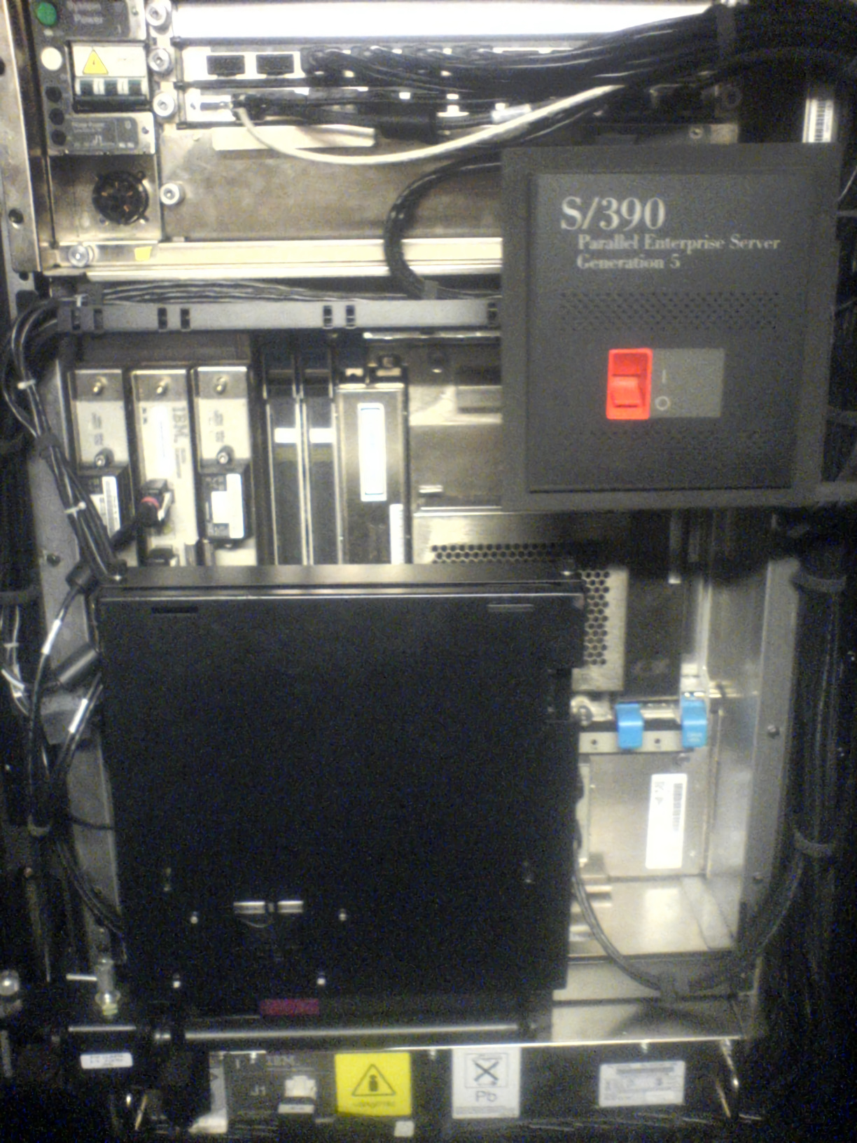 System/390 Generation 5 with cover open, Thinkpad clearly visible. Photo taken by me.